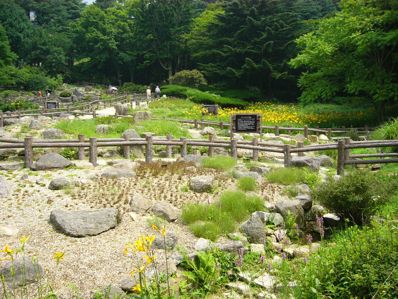 In the Rokko Alpine Botanical Garden, Kobe